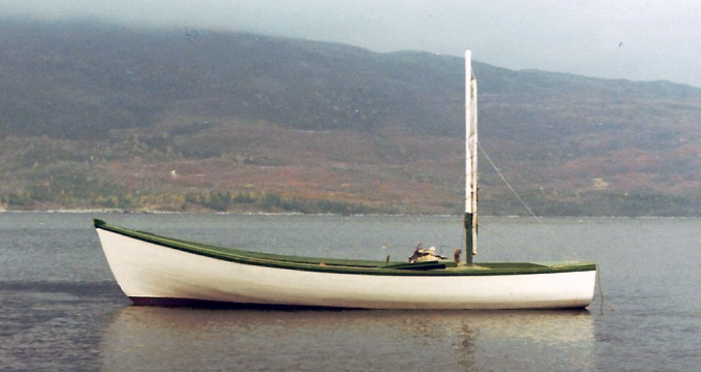 Grand Banks Dory in La Poile Bay, Newfoundland